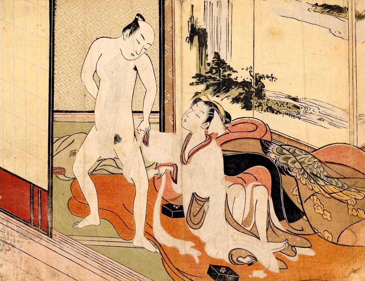 Arranging His Loincloth, from an untitled series by Suzuki Harunobu, c. 1770, Honolulu Museum of Art